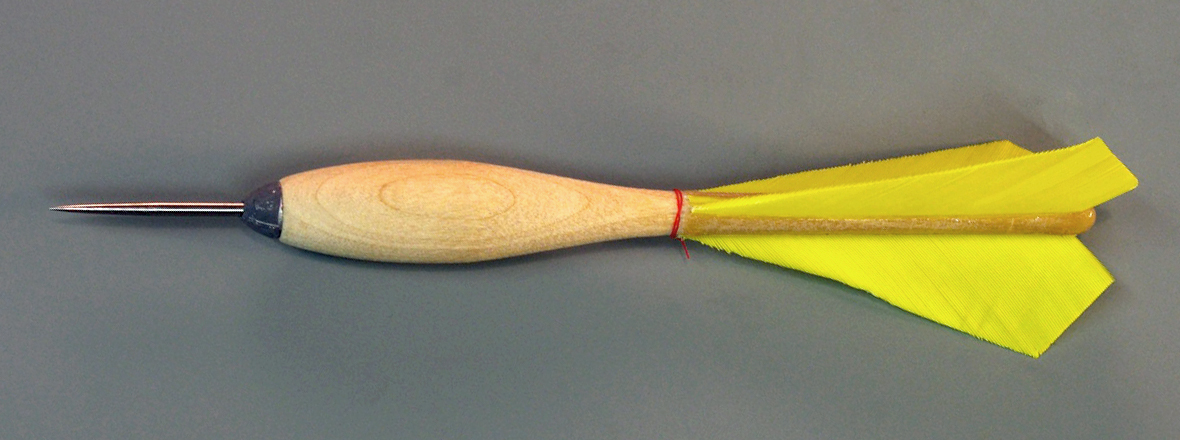 Photograph of a yellow three-feathered dart